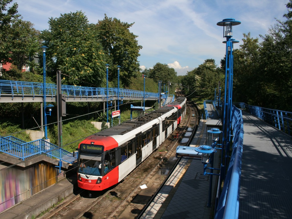 Cologne LRV 5123 at the Am Emberg station on line 4